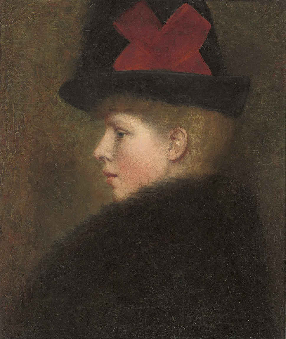 Portrait of Mary Frederica 'Nin' Godward, the artist's sister